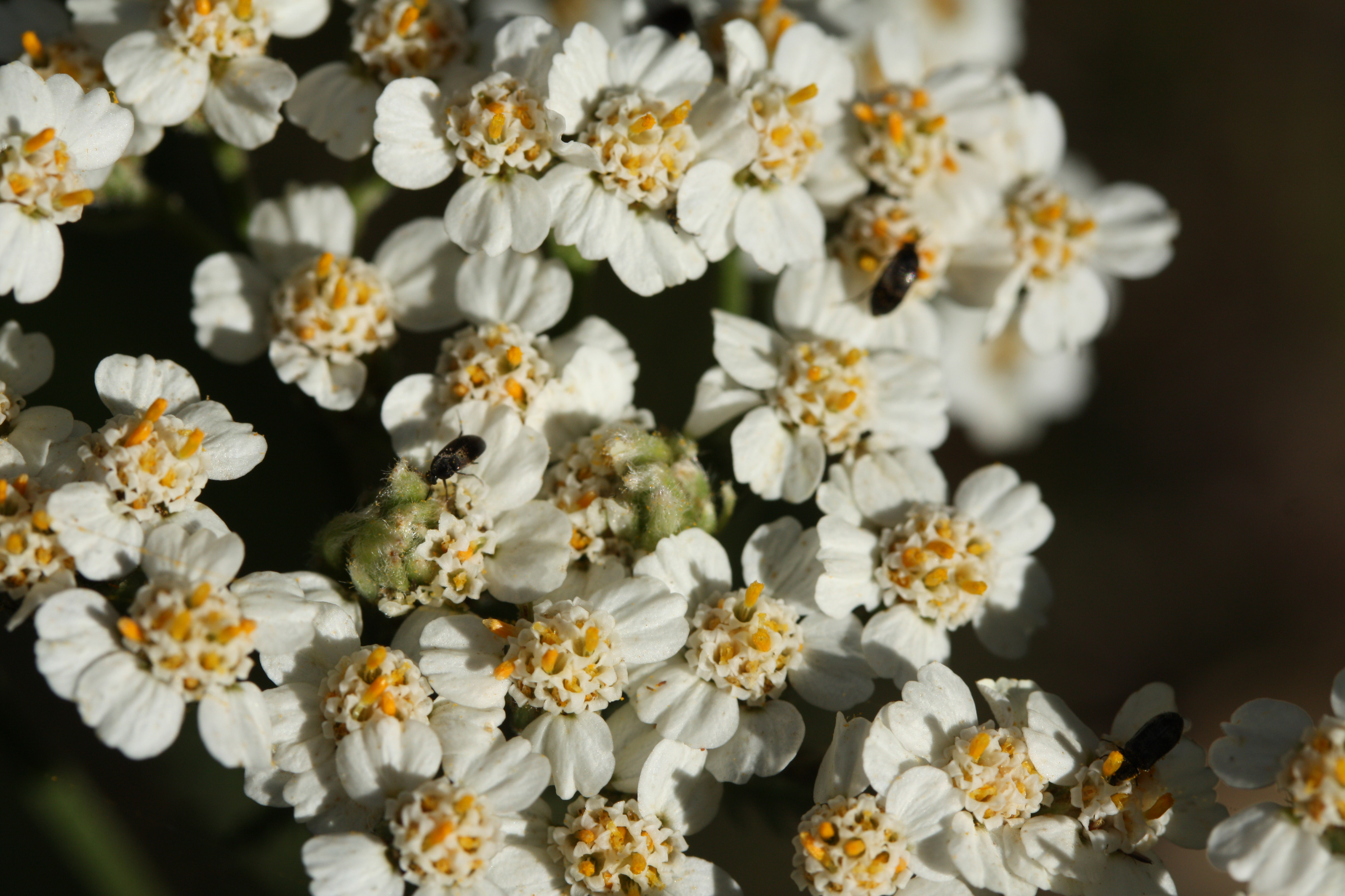 Common Yarrow, Milfoil